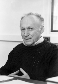 Prof. Ilya Piatetski-Shapiro in his office at Yale